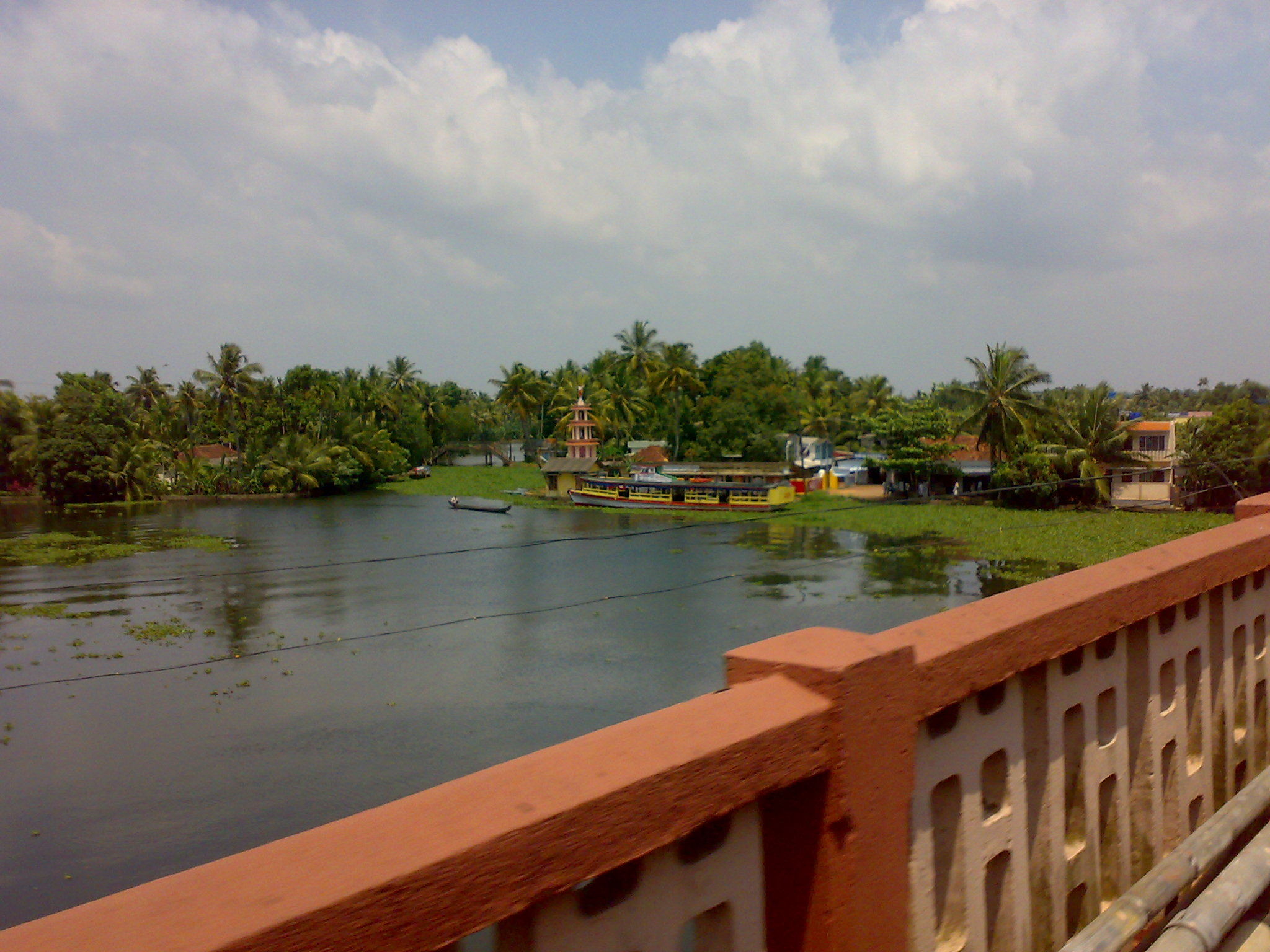 Nedumudy Bridge over Pampa River A.C Road (Alleppey-Chanaganassery Road) SH-11